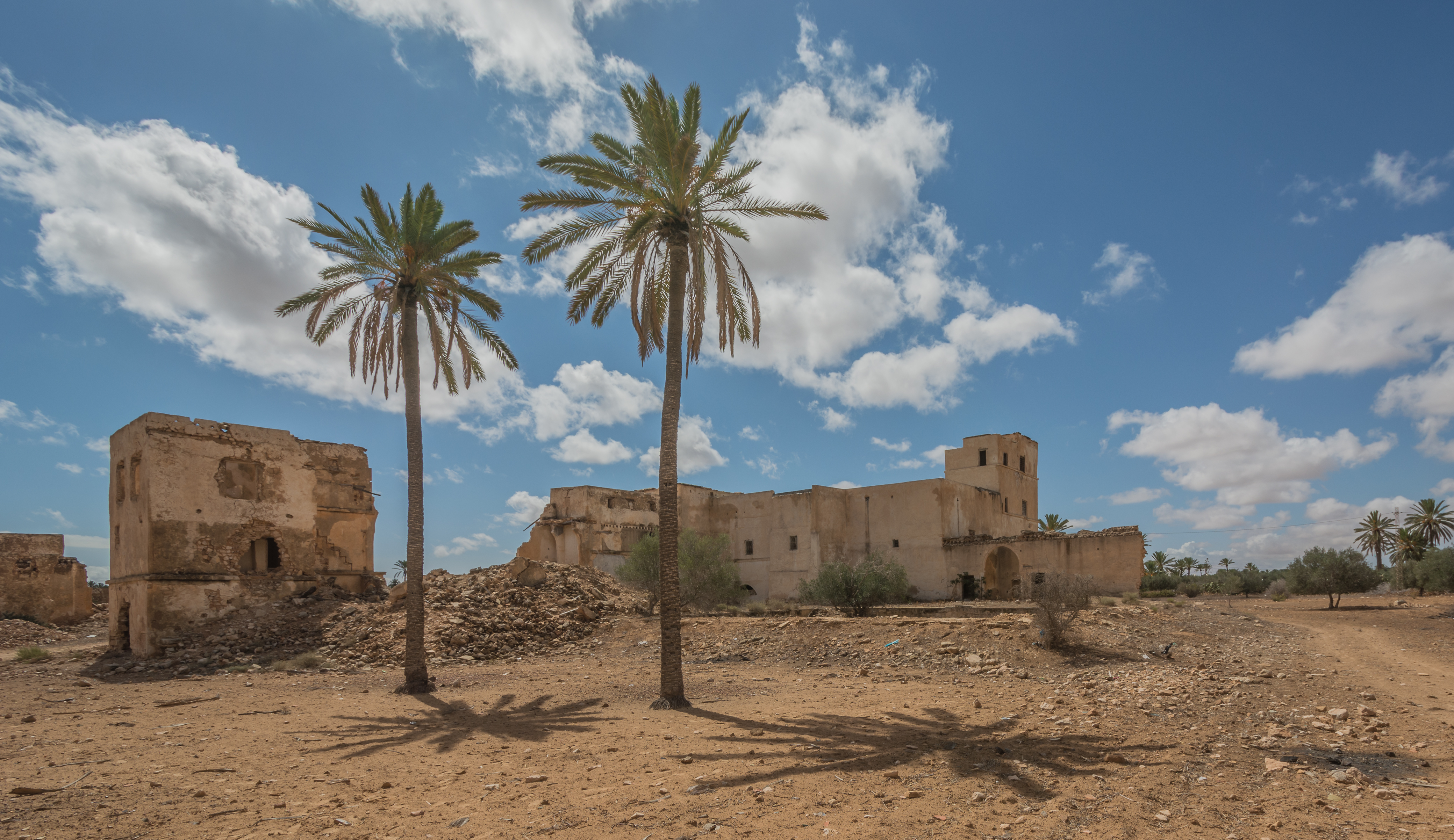 View of Dar Ben Ayyed in Djerba Midoun